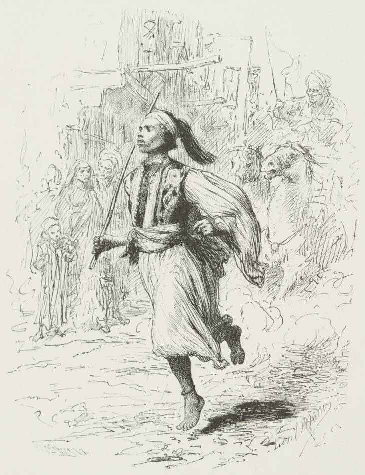 “A SAIS, OR RUNNING FOOTMAN” A barefoot man in robes running while holding a stick.